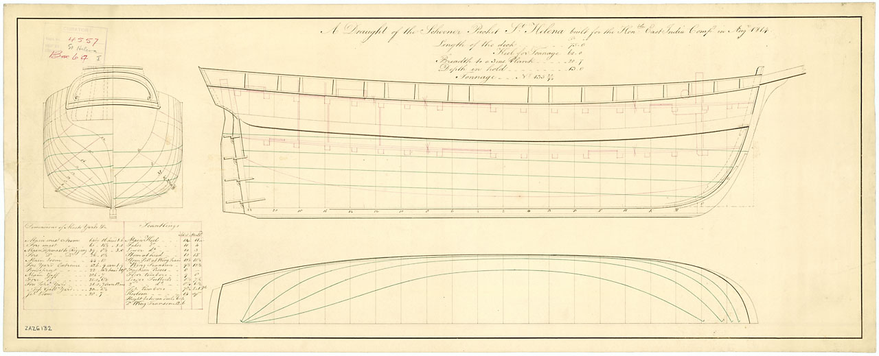 Pen and ink drawing, 320 mm x 795 mm